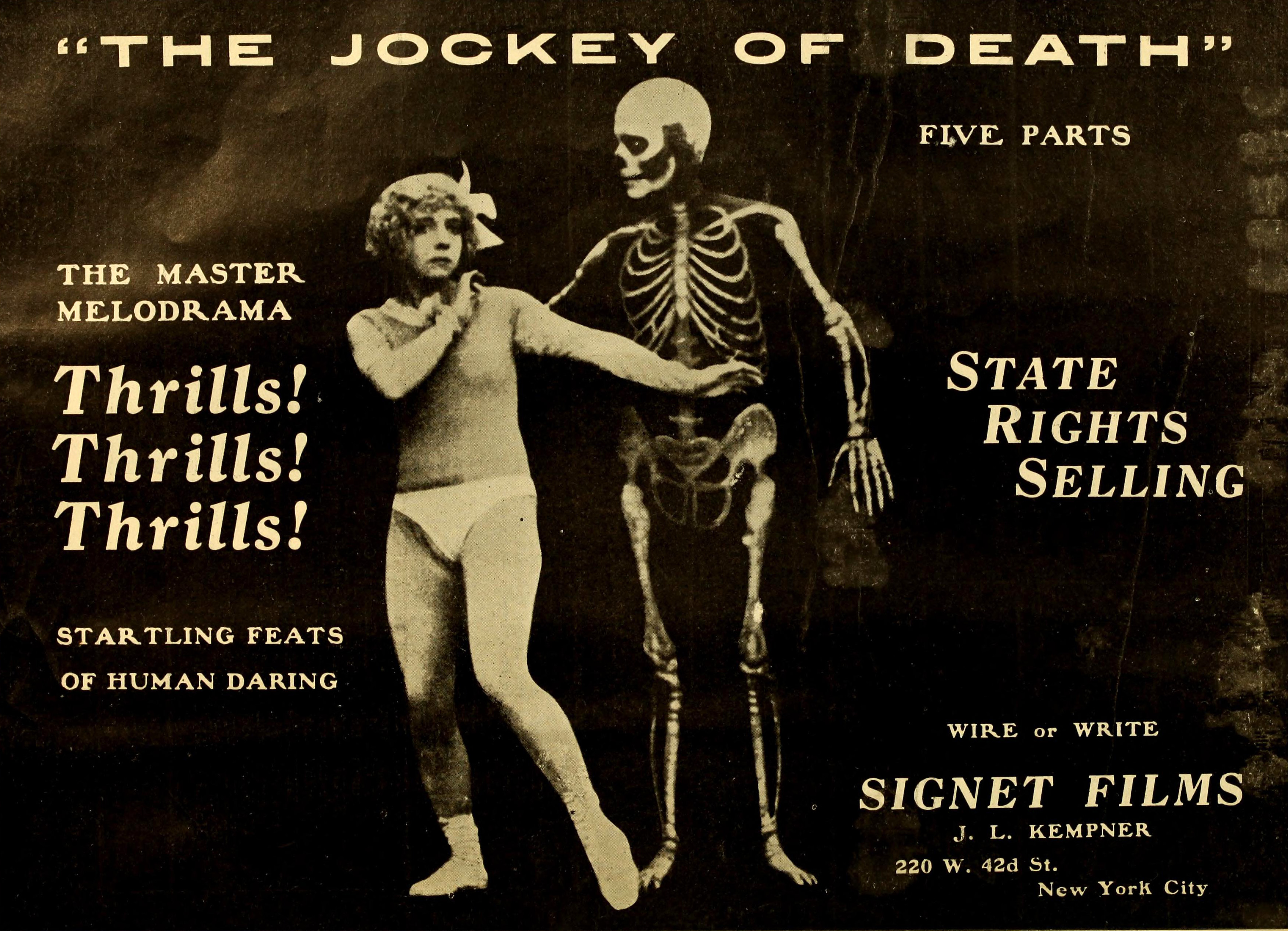 Advertisement in The Moving Picture World for The Jockey of Death, English title for the Italian film Il jockey della morte (1915).